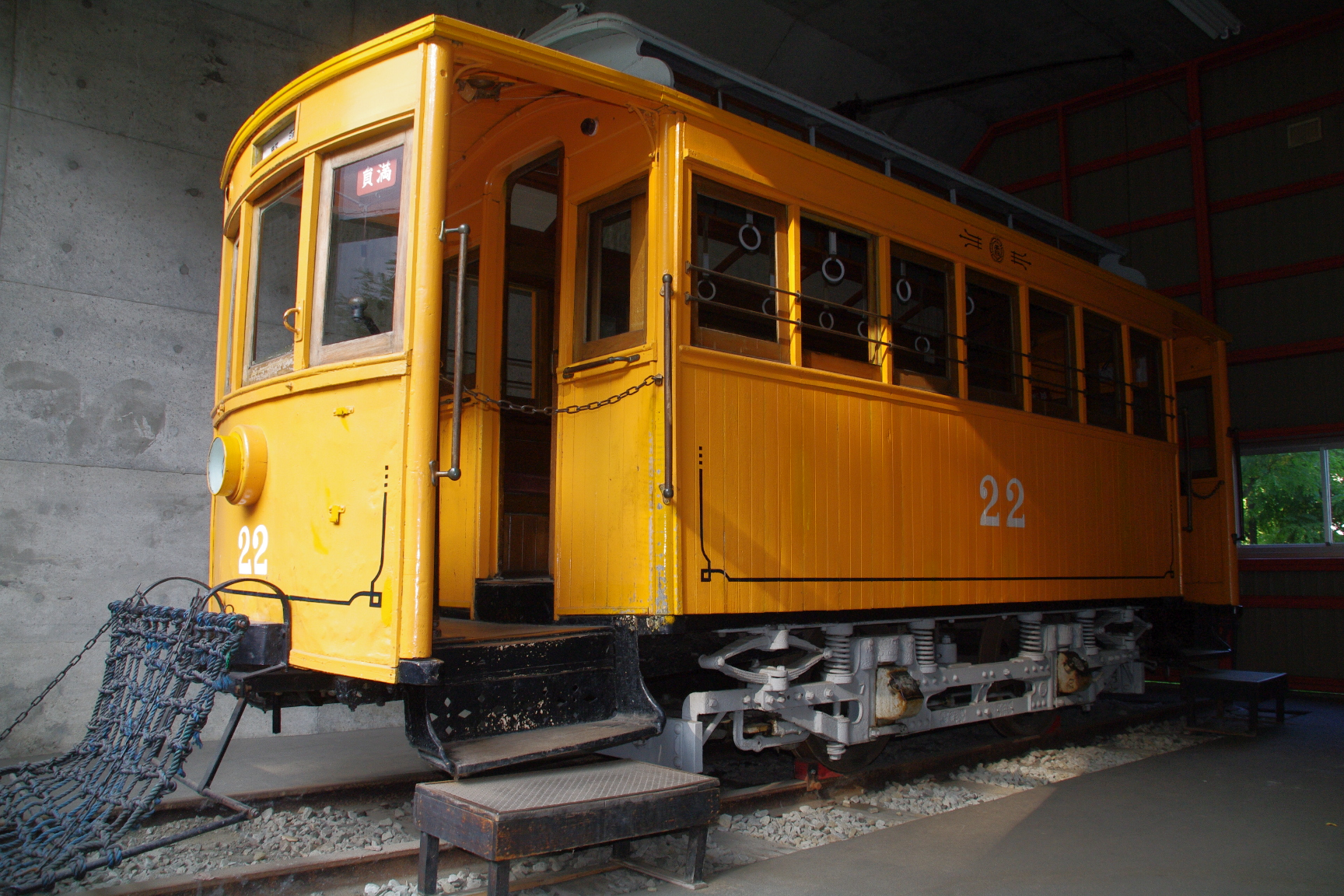 Sapporo streetcar type 22.